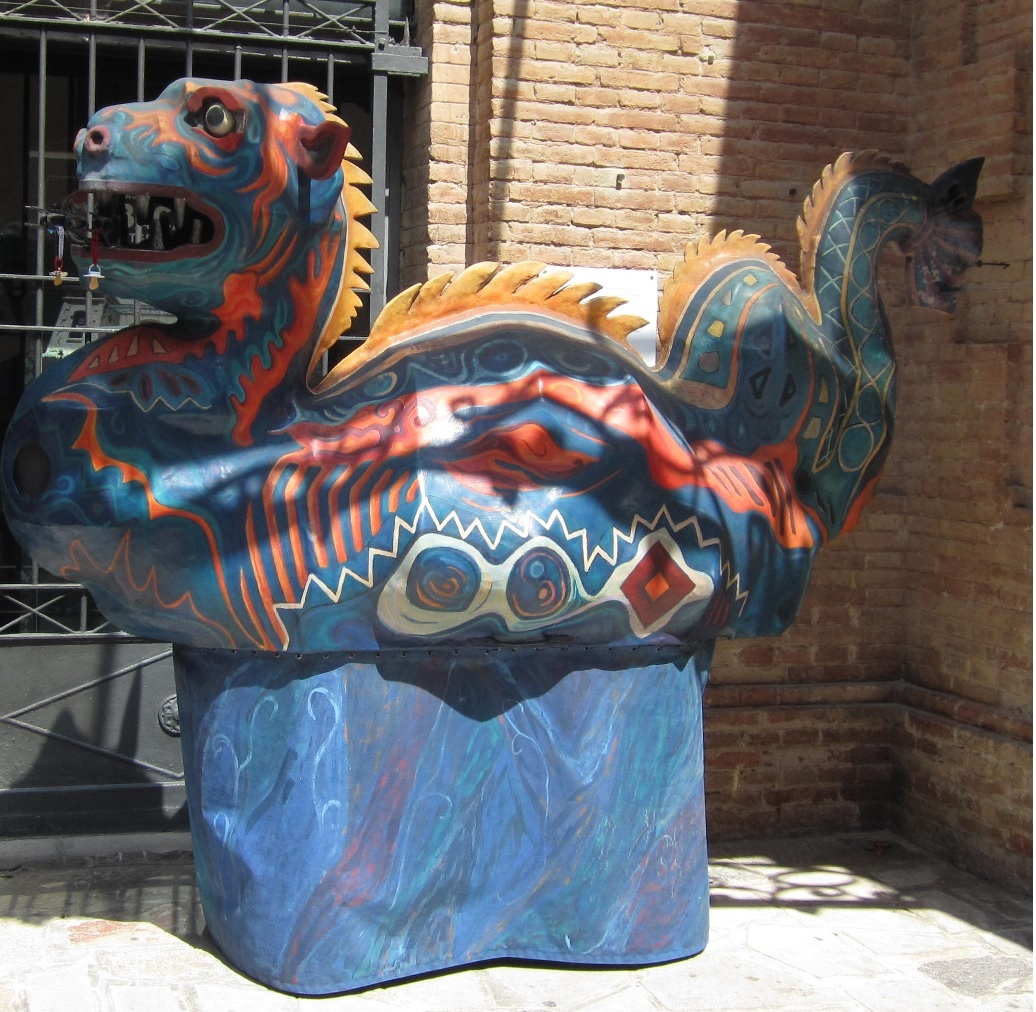 Drac of Sitges, 24.8.2014